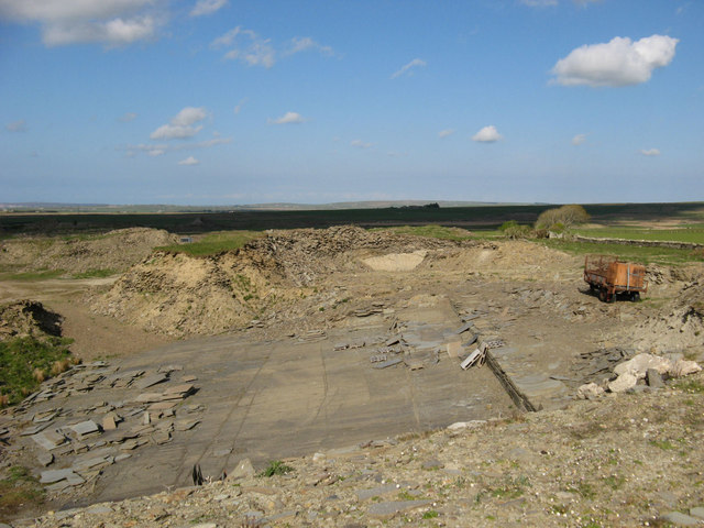 Achscrabster quarry